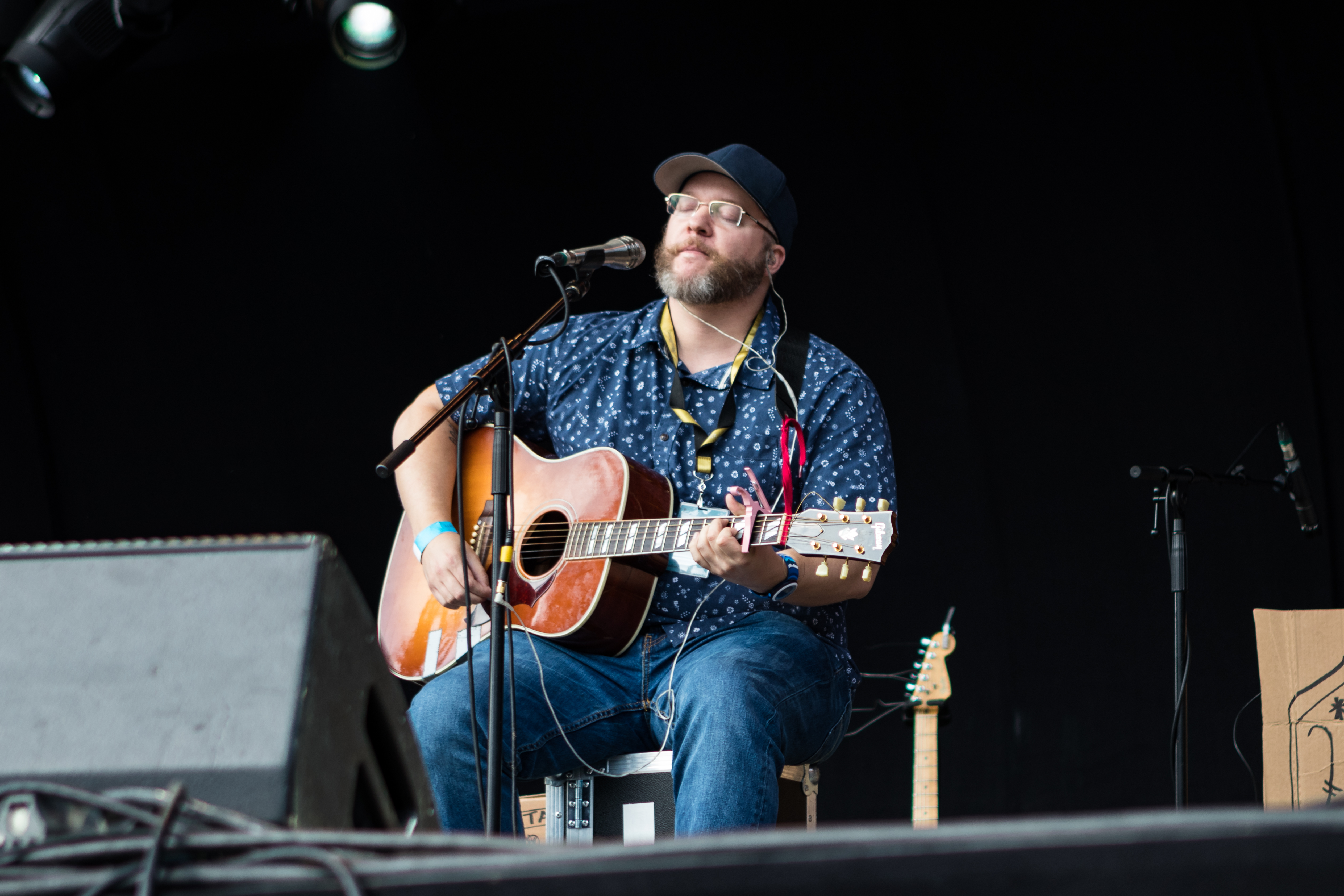 Radical Face at Haldern Pop Festival 2017